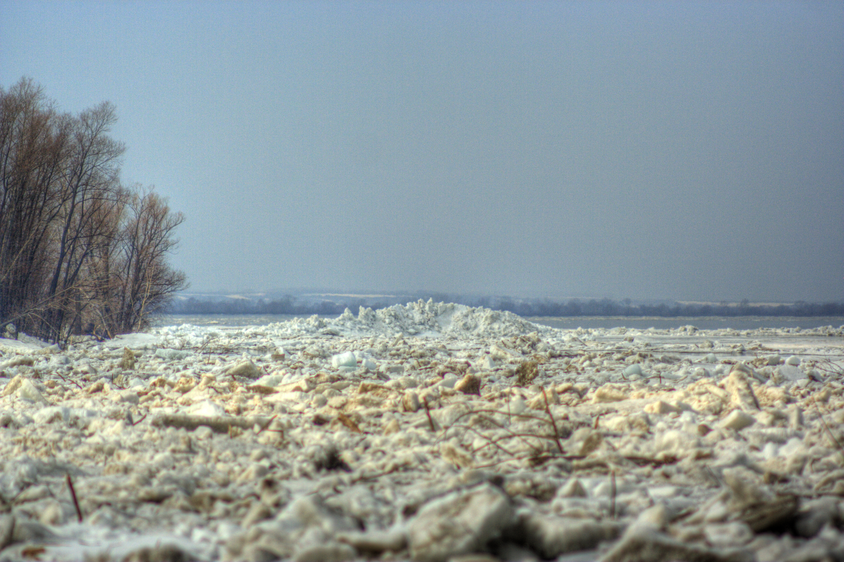 Ice dam on Ob river